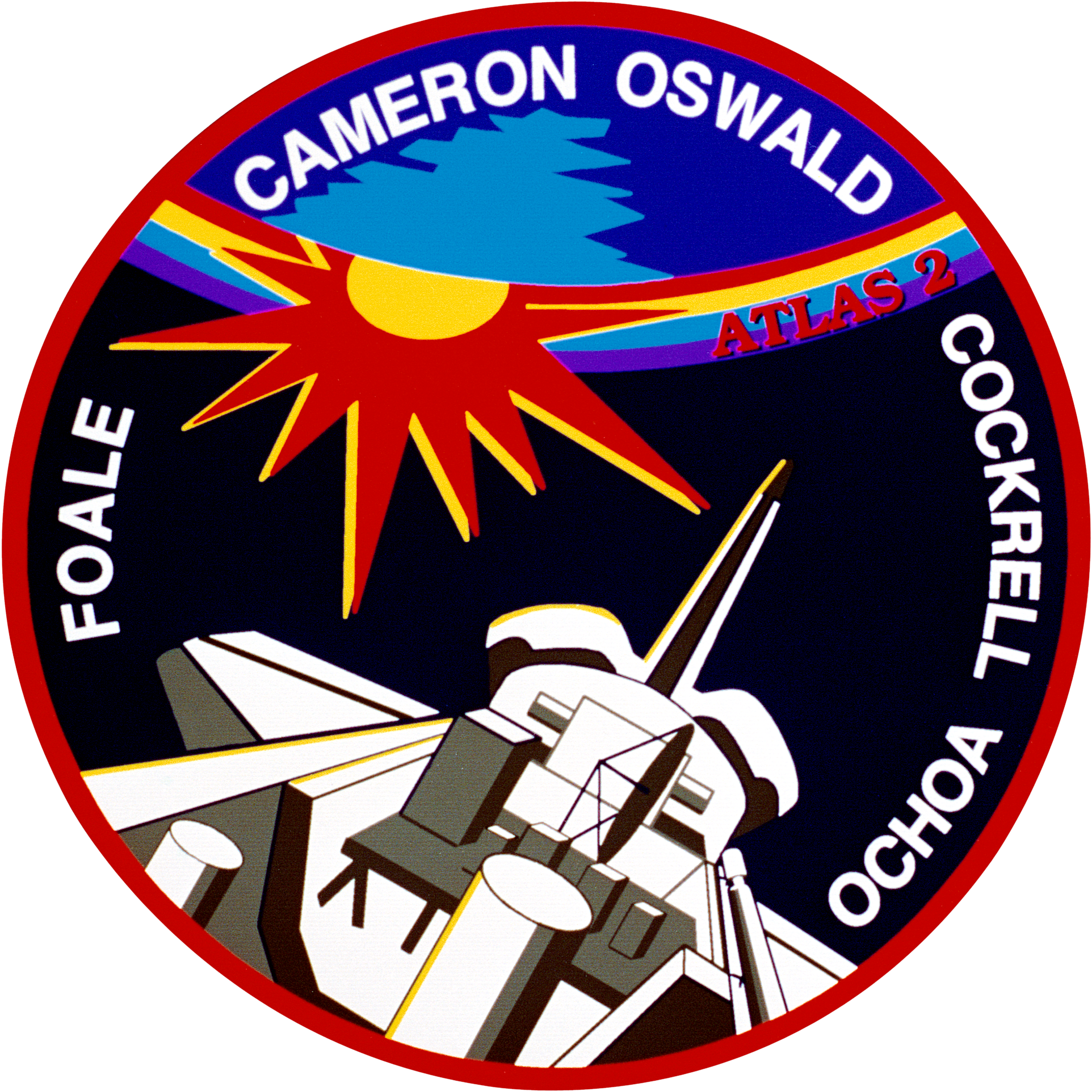 STS-56 Mission Insignia The STS-56 patch is a pictorial representation of the STS56/ATLAS-2 mission as seen from the crew's viewpoint. The payload bay is depicted with the ATLAS-2 pallet, Shuttle Solar Backscatter Ultra Violet (SSBUV) experiment, and Spartan -- the two primary scientific payloads on the flight. With ATLAS-2 serving as part of the Mission to Planet Earth project, the crew has depicted the planet prominently in the artwork. Two primary areas of study are the atmosphere and the sun. To highlight this, Earth's atmosphere is depicted as a stylized visible spectrum and the sunrise is represented with an enlarged two-colored corona. Surnames of the commander and pilot are inscribed in the Earth field, with the surnames of the mission specialists appearing in the space background.